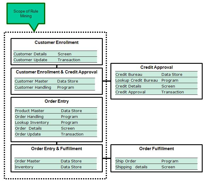 Business Rule Mining: Business Process Mapping to Application Objects